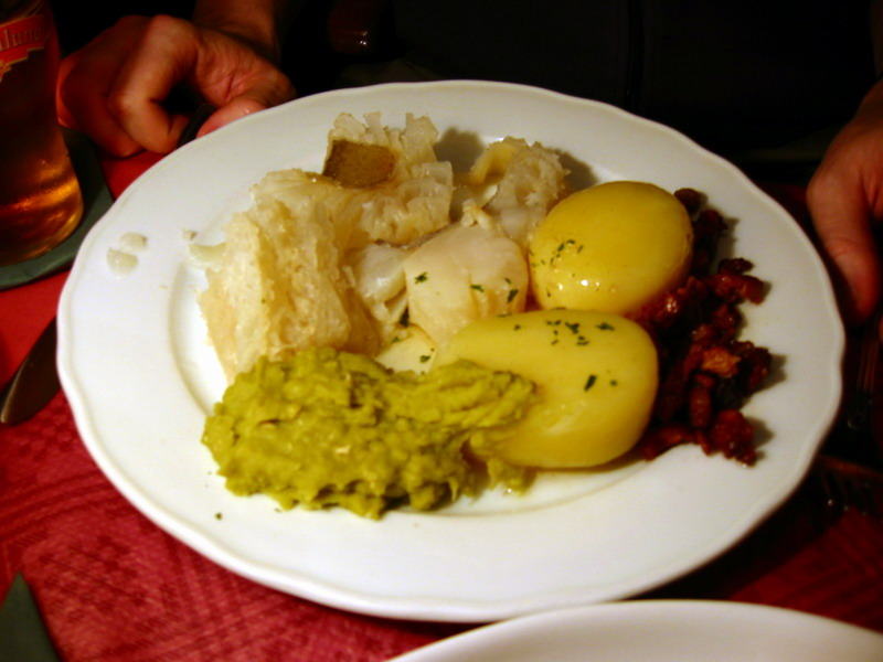 This is a picture of traditional Norwegian lutefisk with extras (potato, bacon and mashed peas).